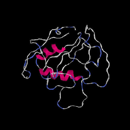 ITasser lab structure prediction of PRR29. I-Tasser: Ambrish Roy, Alper Kucukural, Yang Zhang. I-TASSER: a unified platform for automated protein structure and function prediction. Nature Protocols, vol 5, 725-738 (2010).